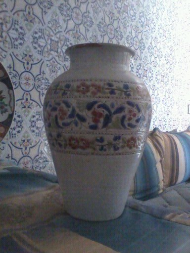 Moroccan vase